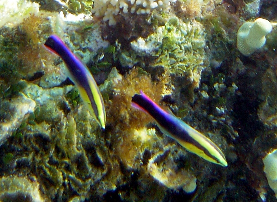 Labroides phthirophagus Image ID: reef0662, NOAA's Coral Kingdom Collection Location: Northwest Hawaiian Islands